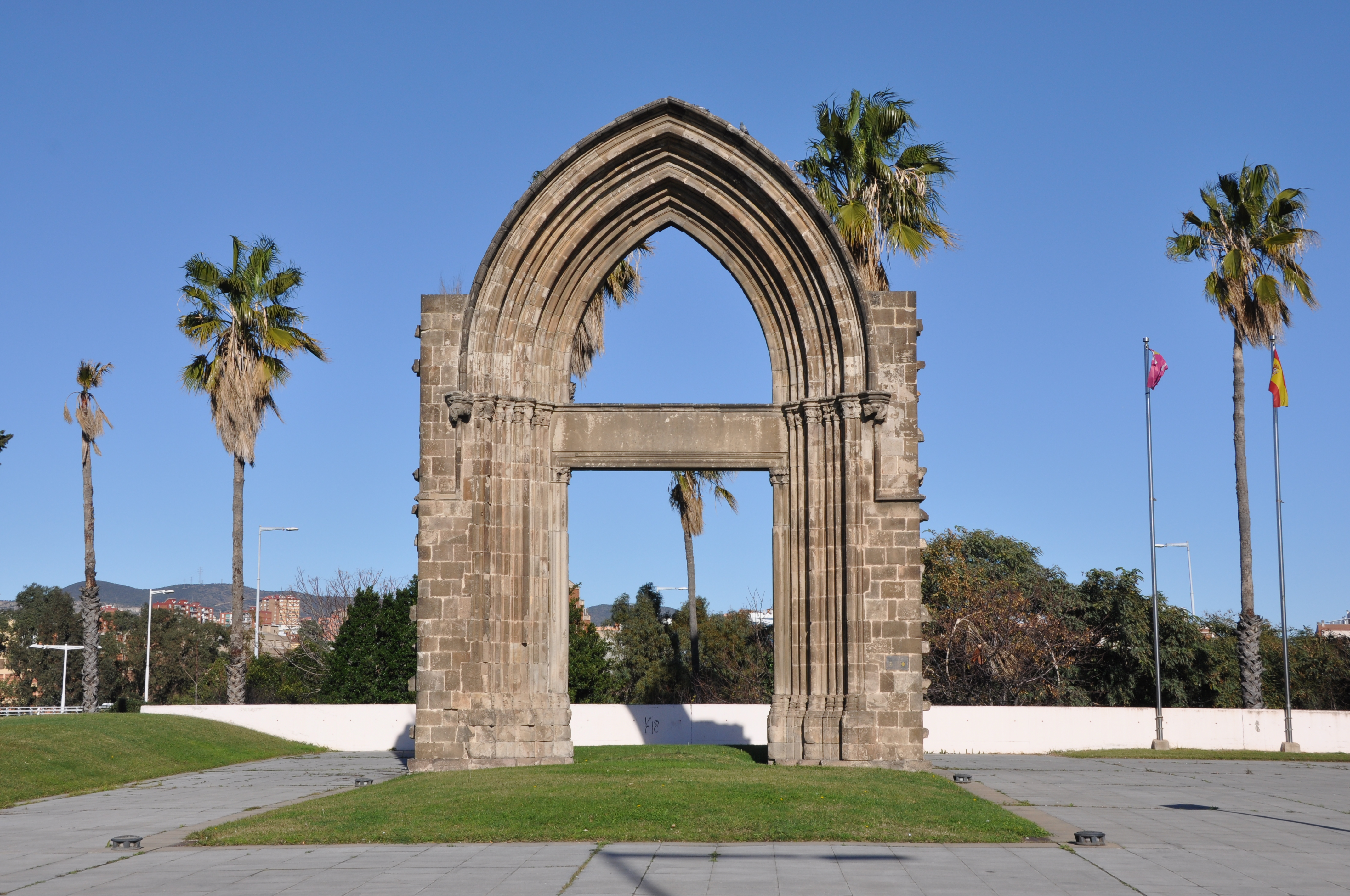 Sant Adrià de Besòs. Former portal of the carmelite convent of Barcelona. 14th C. Te carmelite convent of Barcelona was demolished in 1874 but the portal of its church was preserved and reconstructed elsewhere. Since 1993 stands on its current location at Sant Adrià de Besòs.